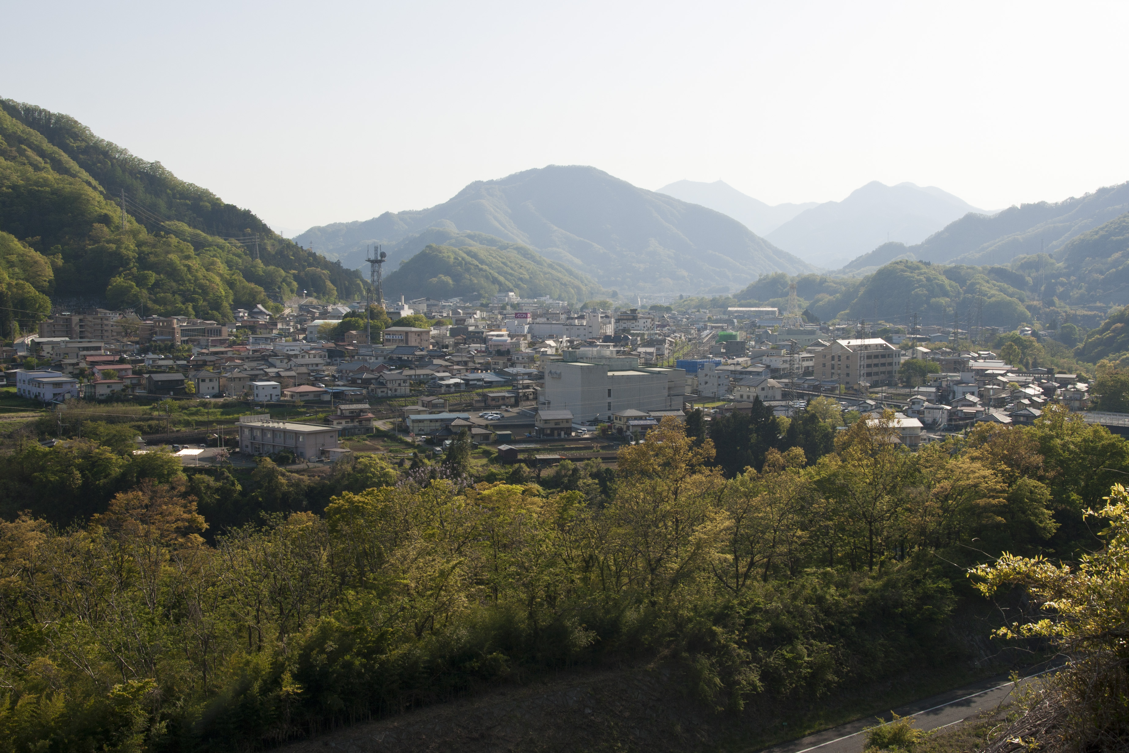 City area of Otsuki City as seen from Mt.Iwadono in Yamanashi Prefecture, Japan.